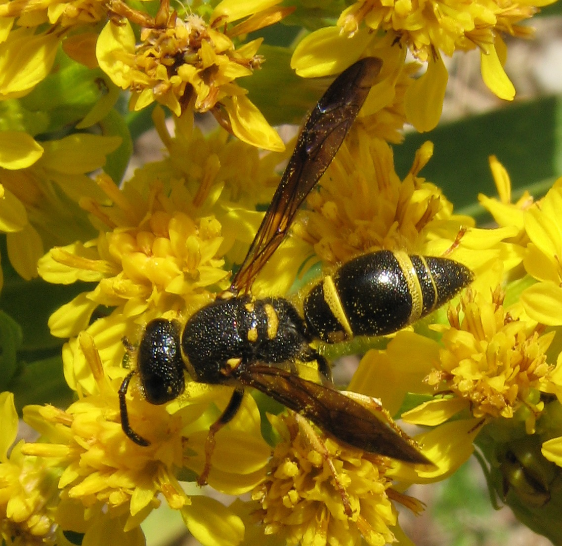 Potter wasp, Ancistrocerus campestris, on goldenrod. Cape May Point, Cape May County, New Jersey, USA.